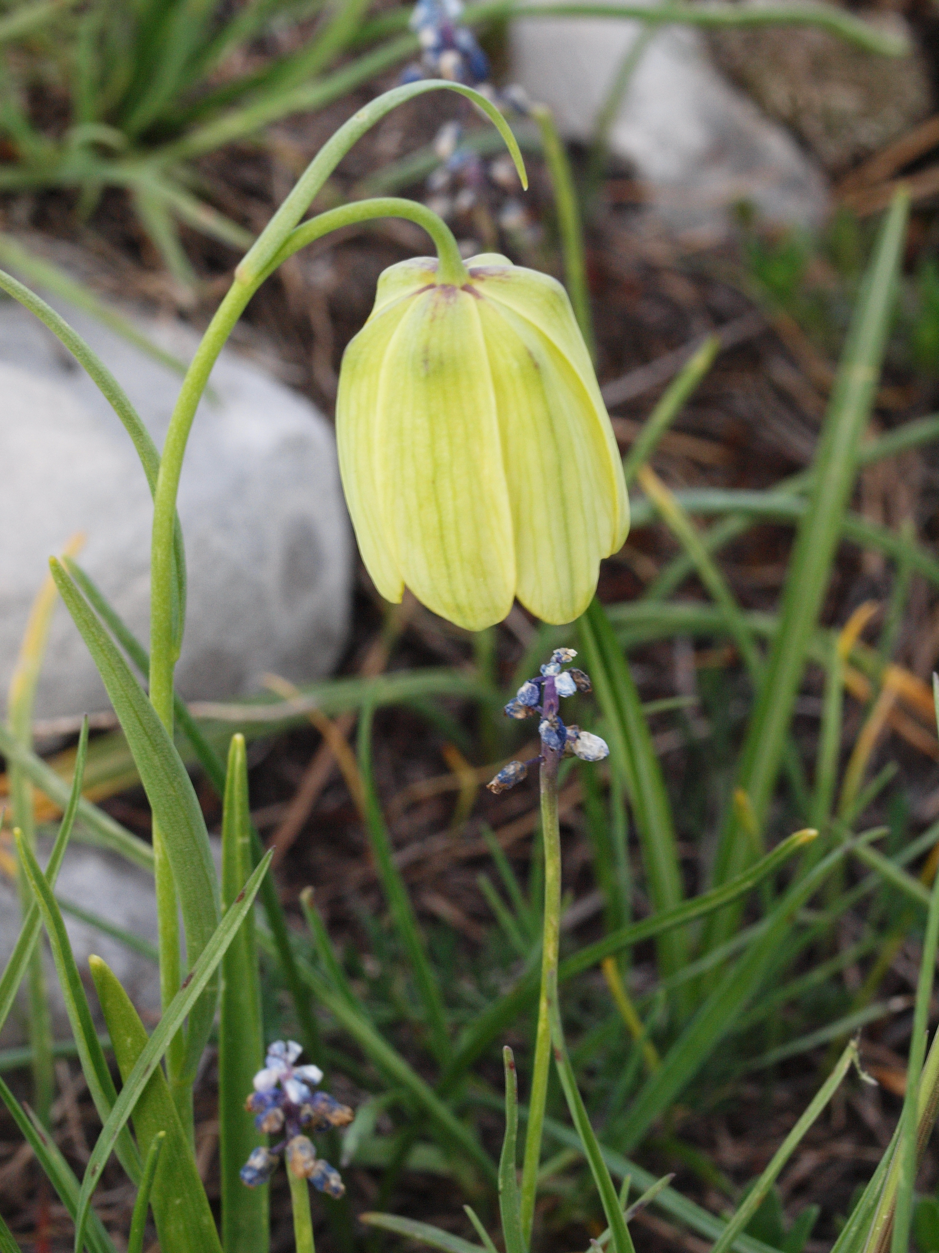 Fritilaria gracilis, yellow variant, Orjen, Montenegro